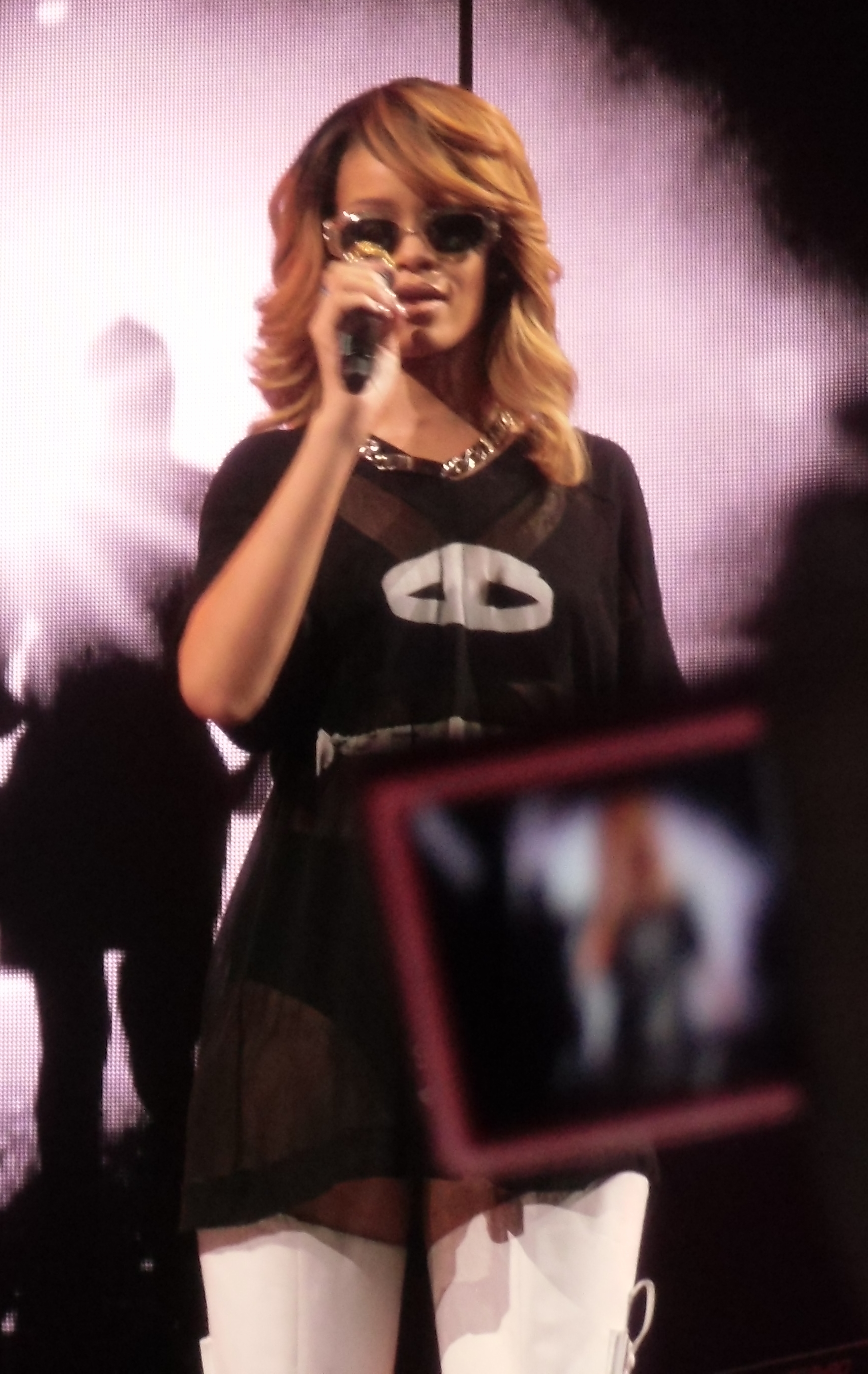 Rihanna performing at her Diamonds World Tour in Cologne on June 26, 2013.